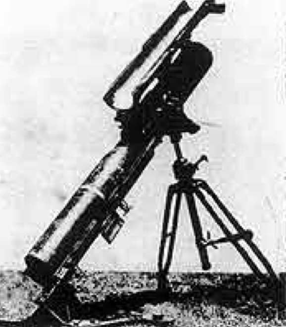 A Type 4 20 cm rocket launcher of the Imperial Japanese Army